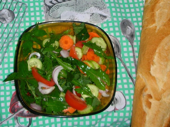 Green salad with carrot, cucumber, onion, Sonchus oleraceus leaves and tomato slices, seasoned with olive oil, vinegar and mustard.